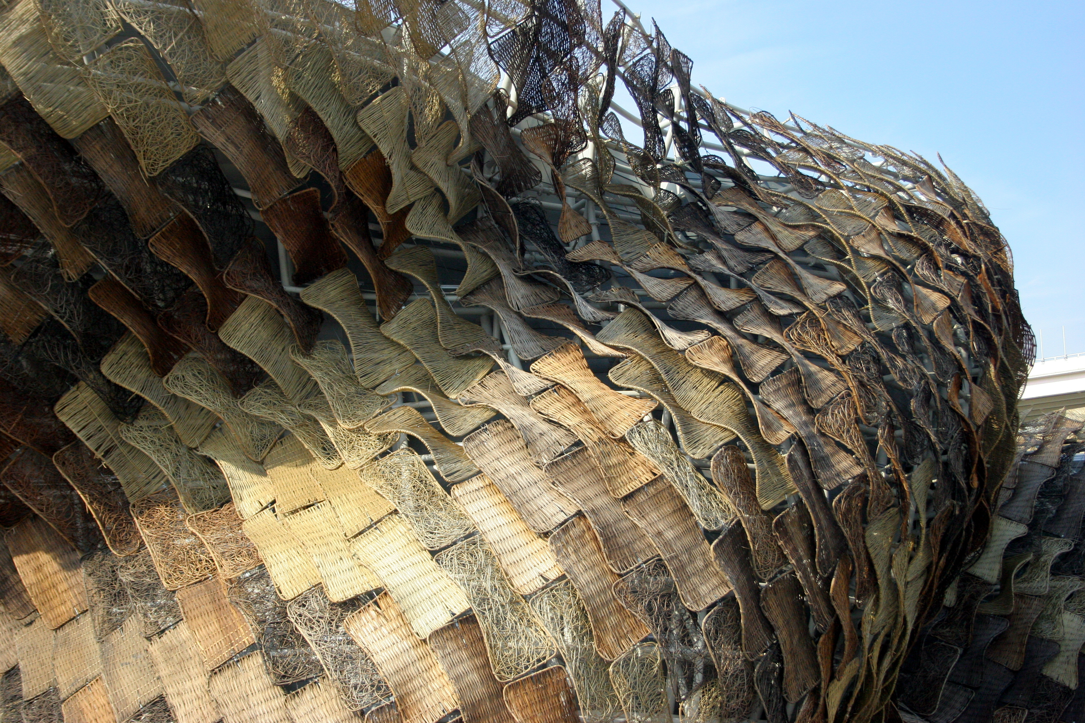 Spain Pavilion of Expo 2010